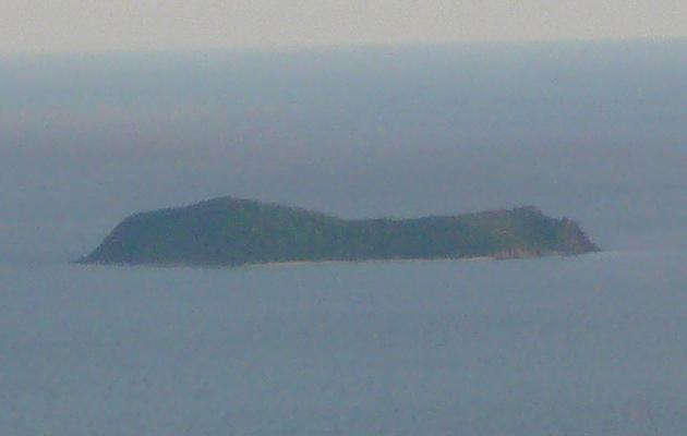 Photograph of Dead Chest Island, British Virgin Islands. Taken from Great Mountain on Tortola.